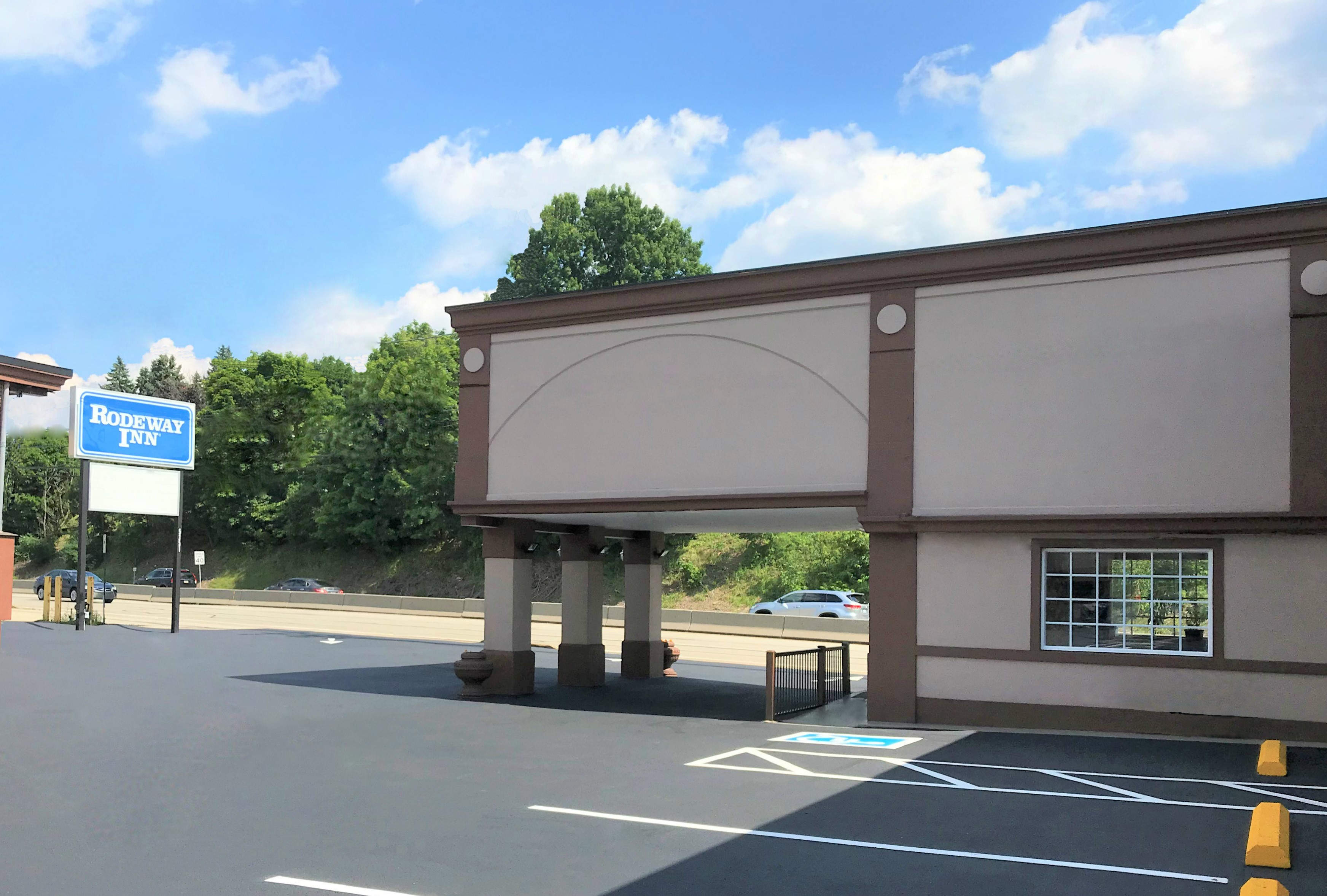 The newest Rodeway Inn brand hotel located in Greensburg, PA.